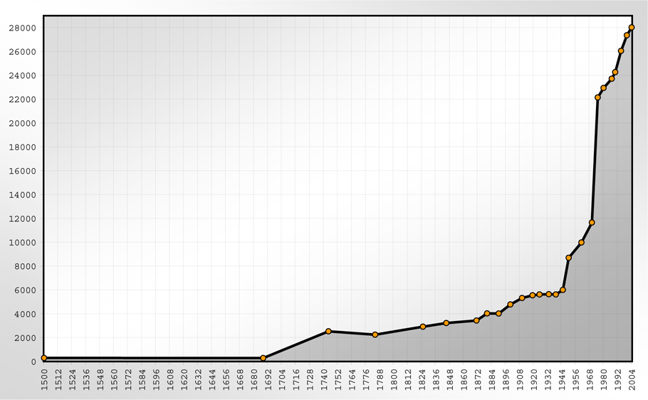 This image shows the population statistics of Bretten (Germany).